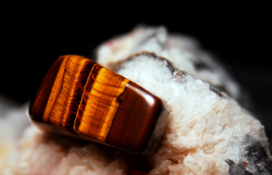 Tiger's eye